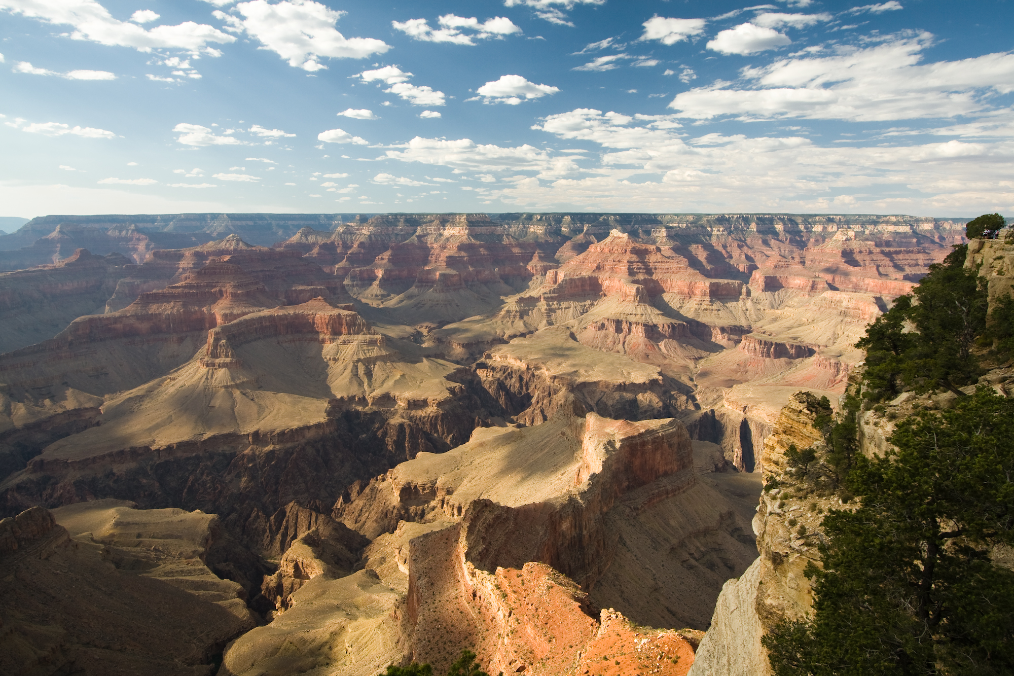 Grand Canyon, Arizona. The canyon, created by the Colorado River over 6 million years, is 277 miles (446 km) long, ranges in width from 4 to 18 miles (6.4 to 24 kilometers), and attains a depth of more than a mile (1.6 km). Arizona, USA.